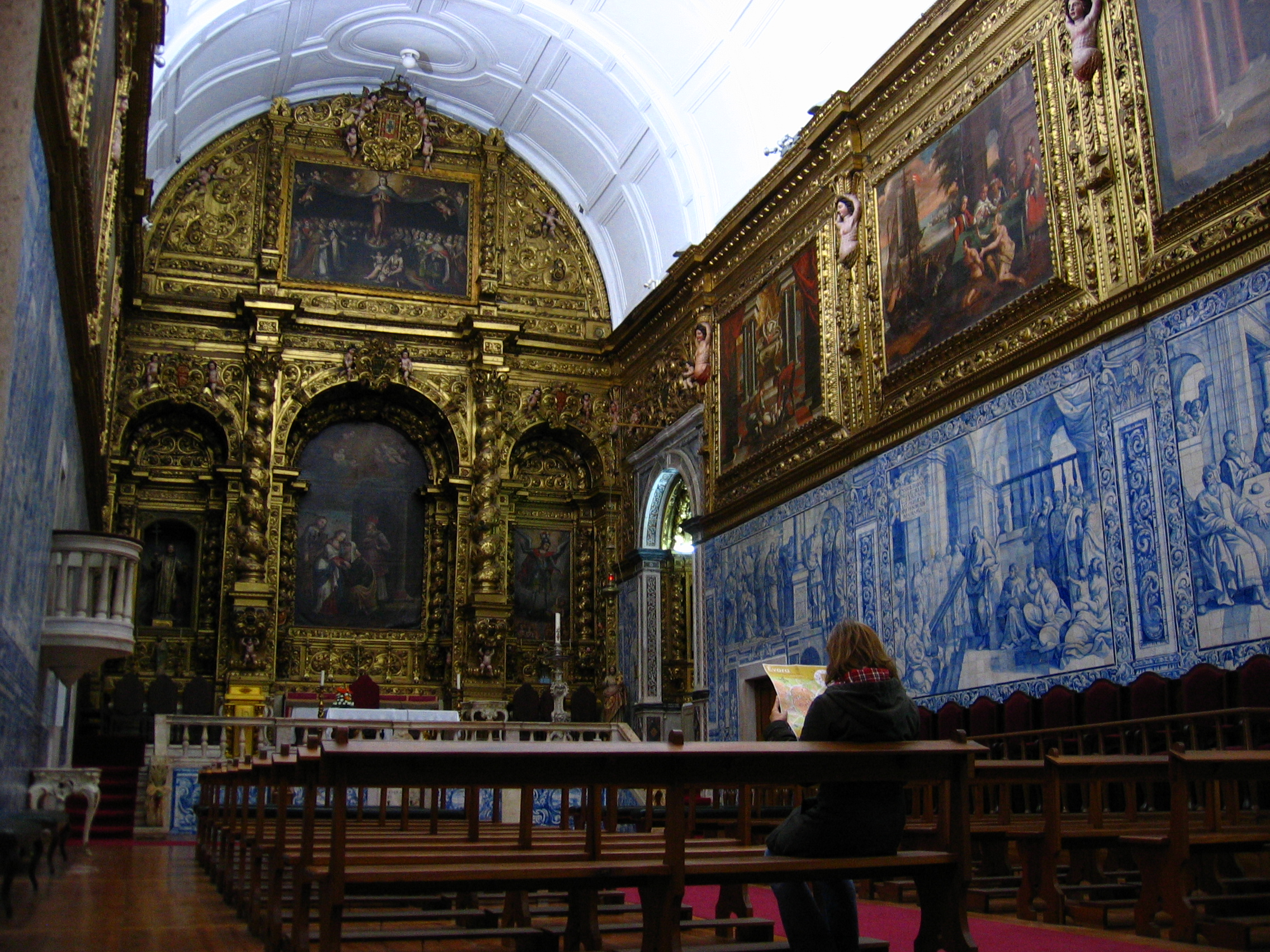 Interior of Misericórdia Church in Évora.